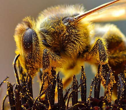 Cropped from Image:Bees Collecting Pollen 2004-08-14.jpg Bees Collection Pollen – 2004-08-14 A bee at the Del Mar fairgrounds.